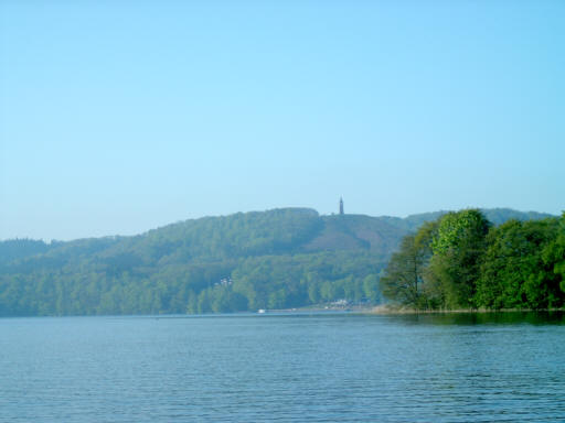 A view of Himmelbjerget near Ry, Denmark, as seen from the northwest across Juulsø (Lake Juul).